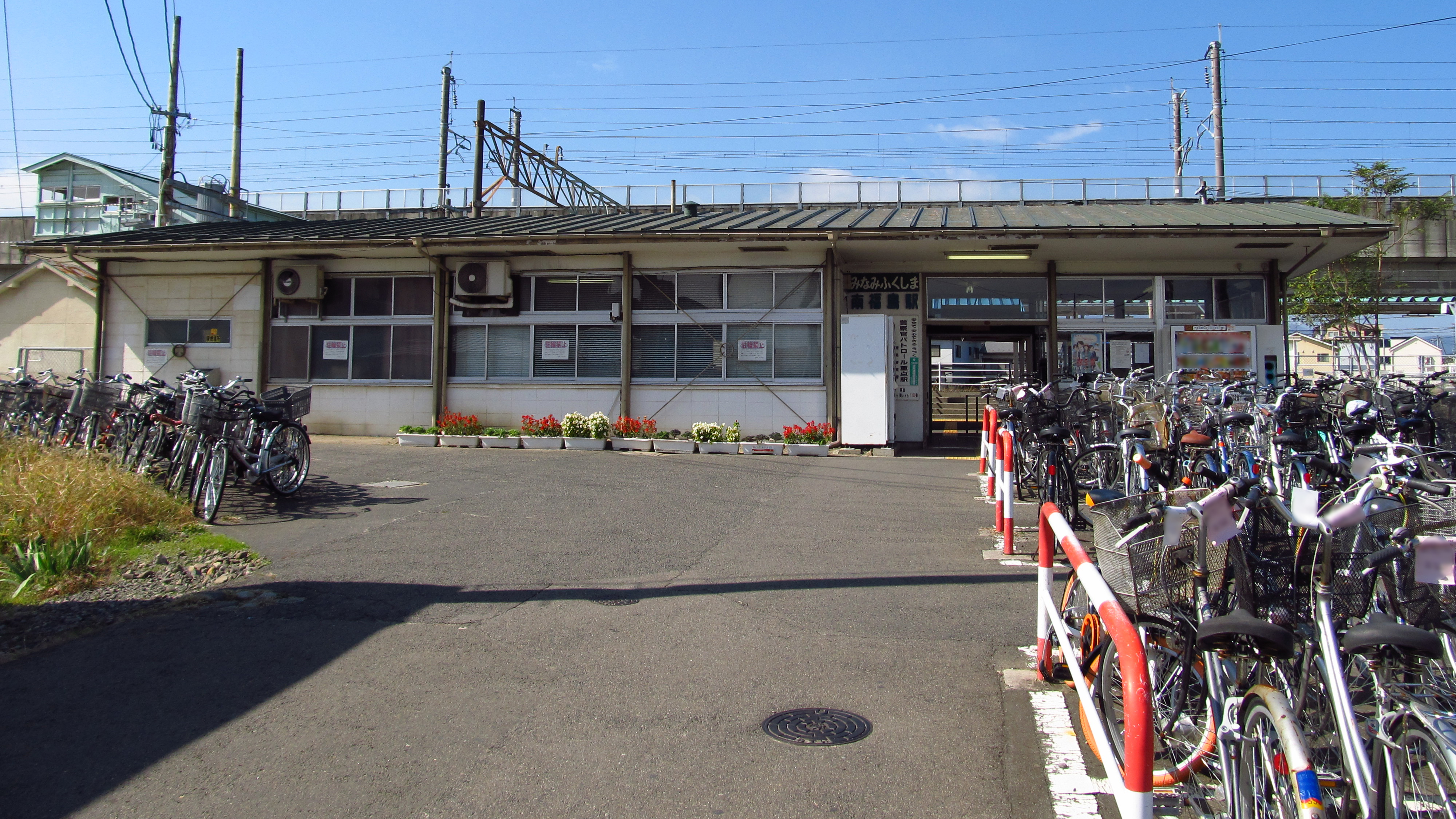 The building of Minami-Fukushima Station on the Tōhoku Main Line in Nihonmatsu city, Fukushima prefecture, Japan